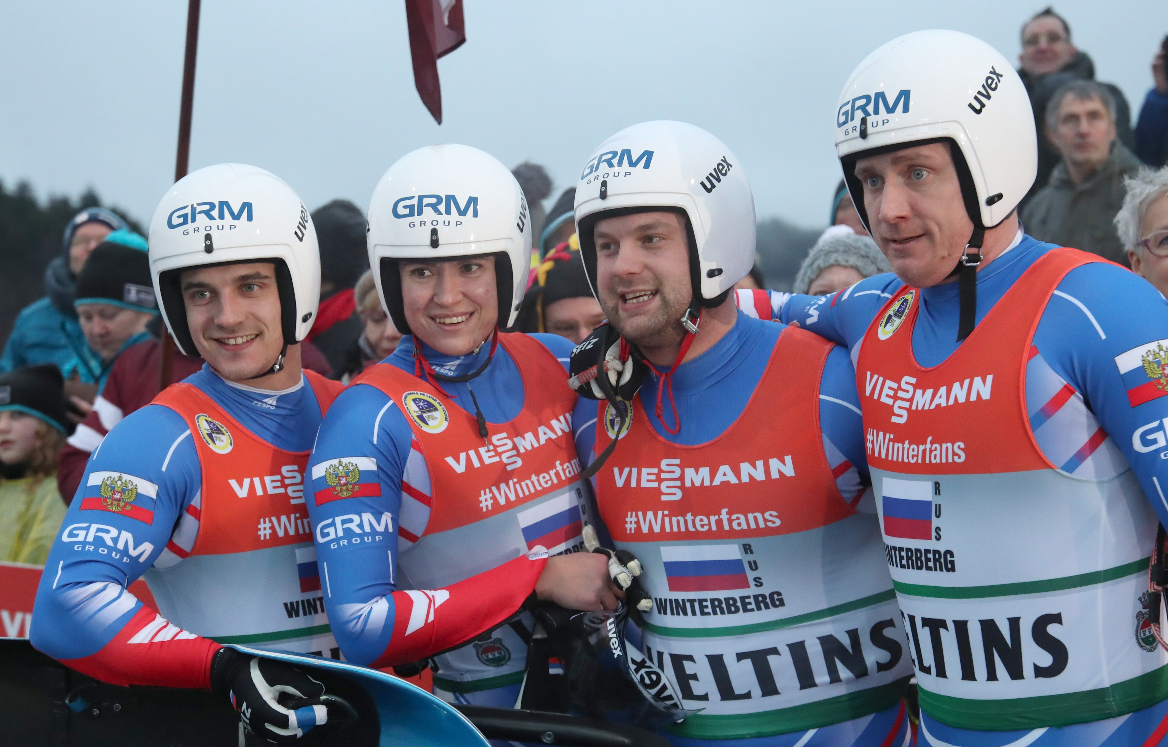 Team Relay at the FIL World Luge Championships 2019 in Winterberg